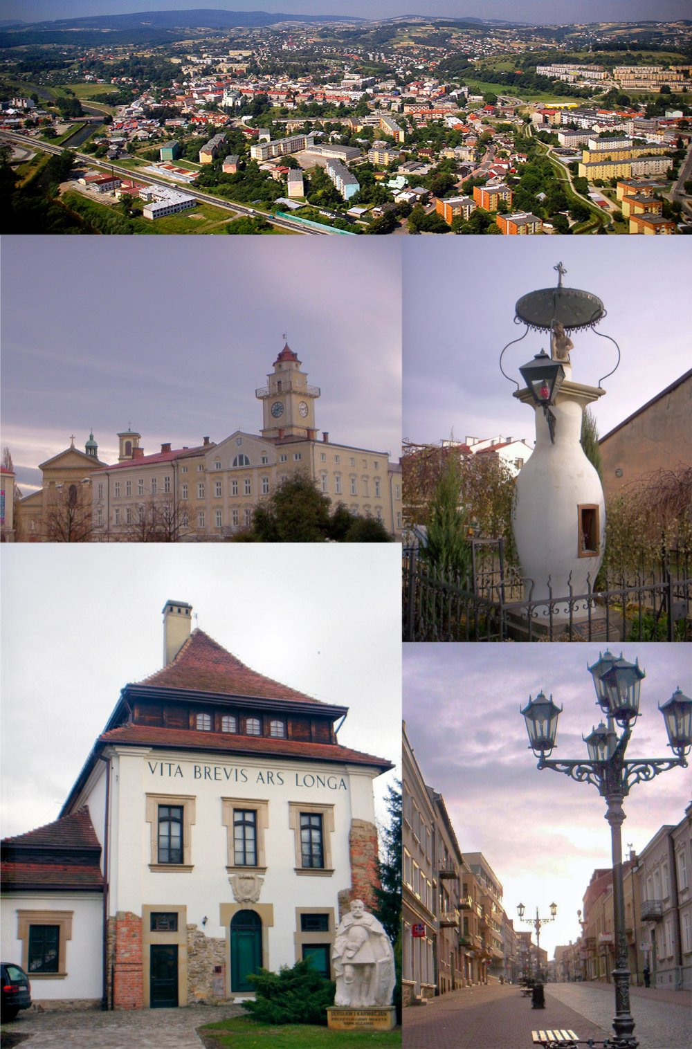 Collage of images of the city of Gorlice in Poland, for use in the artcle's infobox. Images are from Commons. (see: listing in the parameter "Source", below)